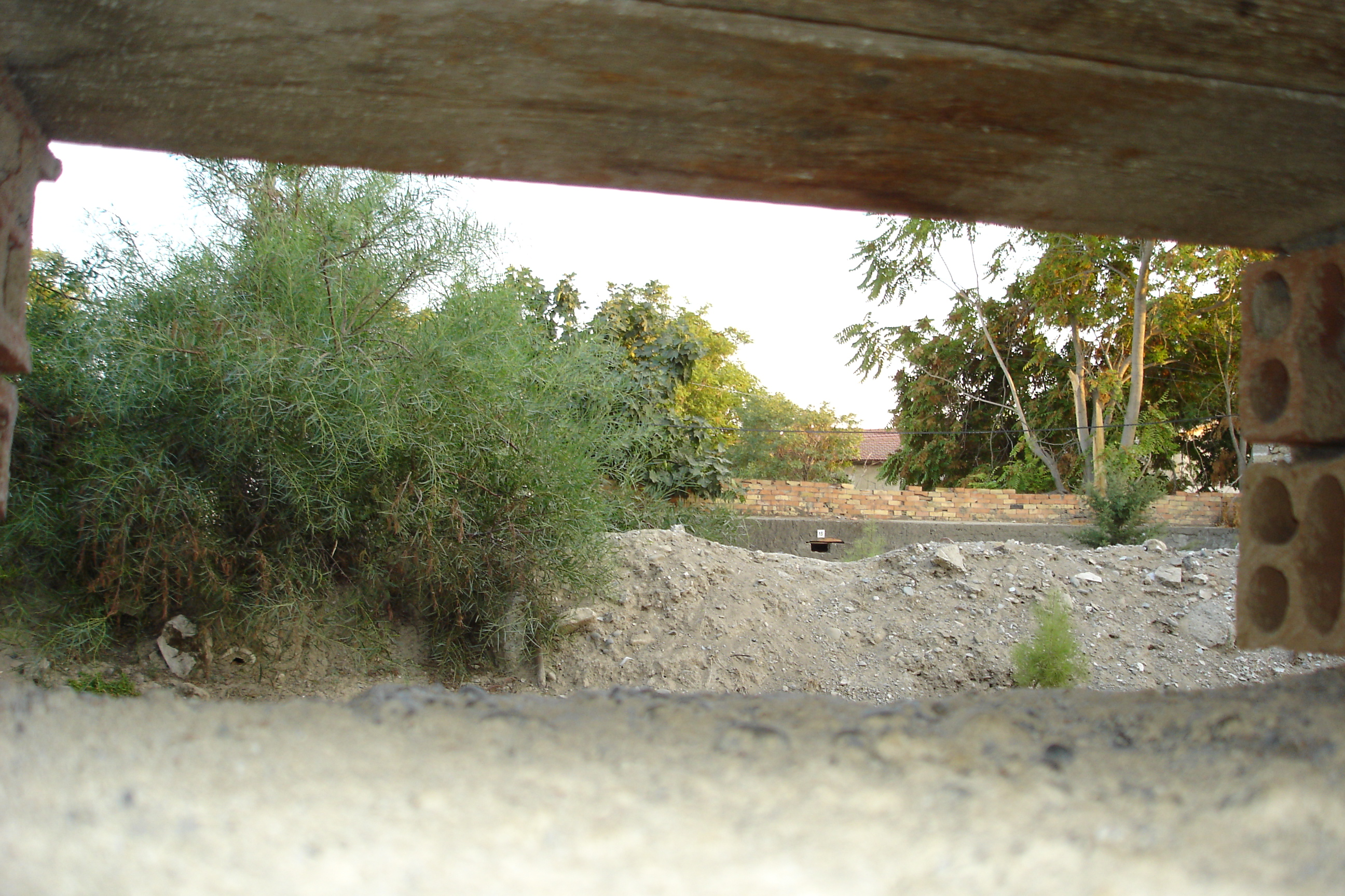 The Green Line as viewed from the Turkish controlled part of Nicosia (Cyprus).